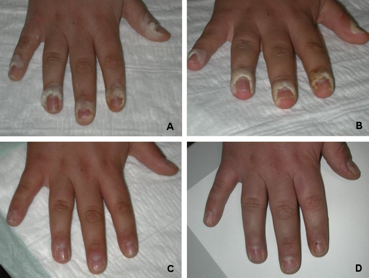 Example of the therapy of hand warts with water-filtered infrared-A (wIRA): 18 year old boy with multiple periungual warts: before starting with treatment (with placebo cream, visible light, and water-filtered infrared-A), after 3, 6 and 18 weeks. A: Before first treatment B: Before second treatment C: Before third treatment D: 18 weeks after first treatment (Faster reduction of "total wart area of each patient" with water-filtered infrared-A (wIRA) and visible light (VIS) compared to VIS only. There was, however, no difference between the groups with 5-ALA cream and the groups with placebo cream.)